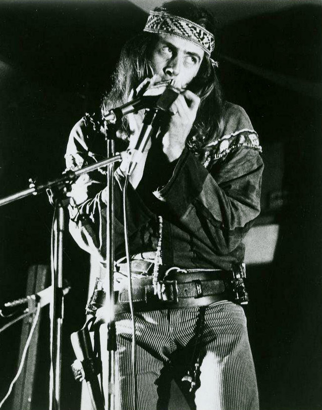 Photo of John Mayall performing.